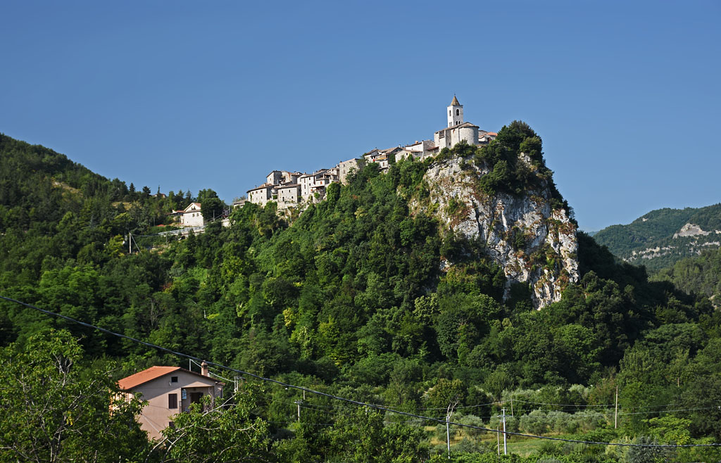 Castel Trosino